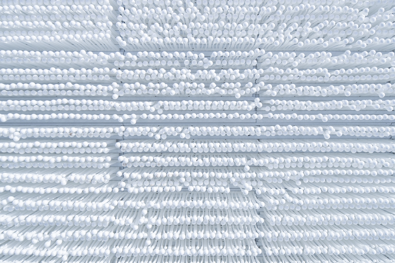 a dry ski mat which we call “Needle mushroom dry ski mat" has been very popular since 2010. It is made of plastic and aluminum base, with countless bead-like beads on the surface.